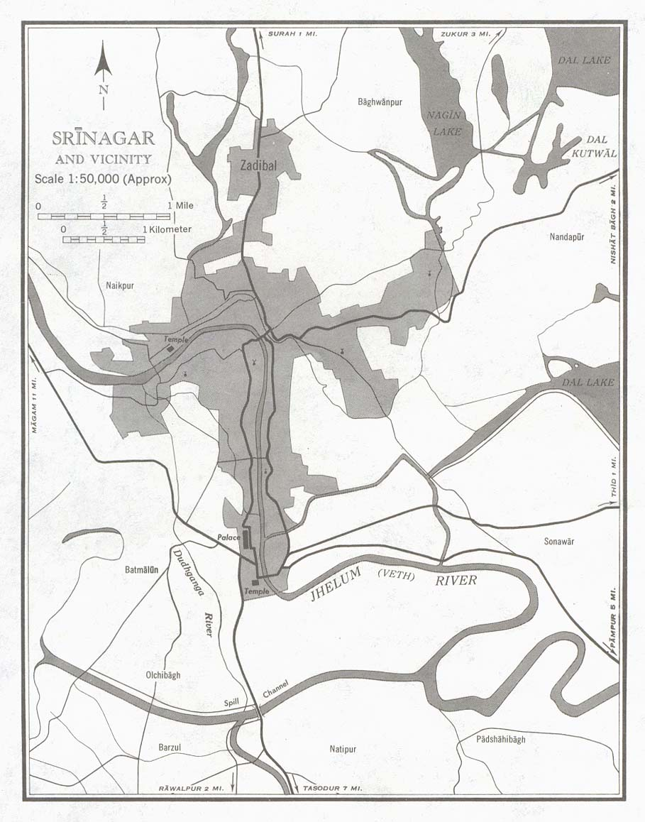 Srinagar, India: city and its vicinity in 1959. Original description at "Portion of sheet NI 43-6 Srinagar. Edition May 1959. Original scale 1:50,000 Compiled in 1954 from Survey of India. Published by the U.S. Army Map Service, July 1959 (146K) Not for navigational use."